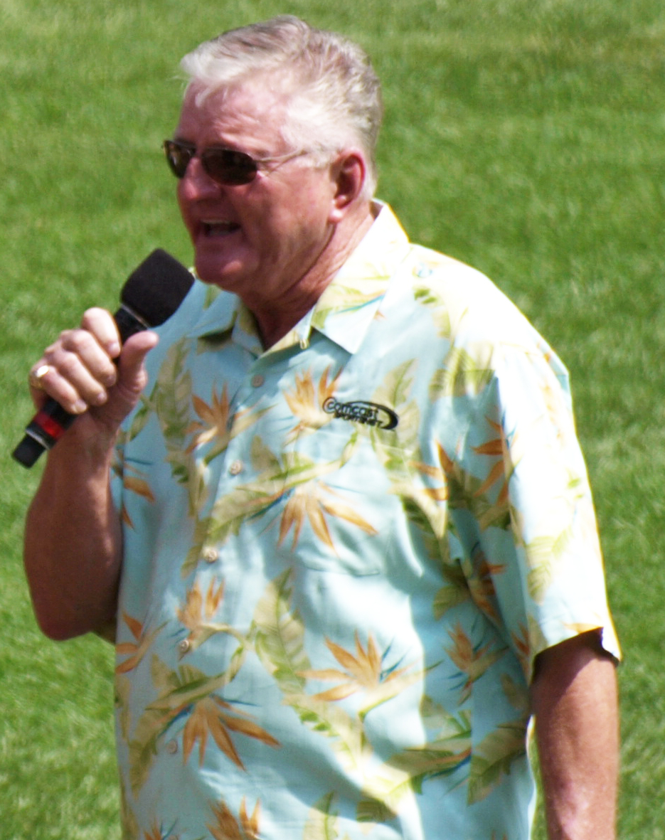 Hawk Harrelson at Frank Thomas Day - U.S. Cellular Field - 8/29/10